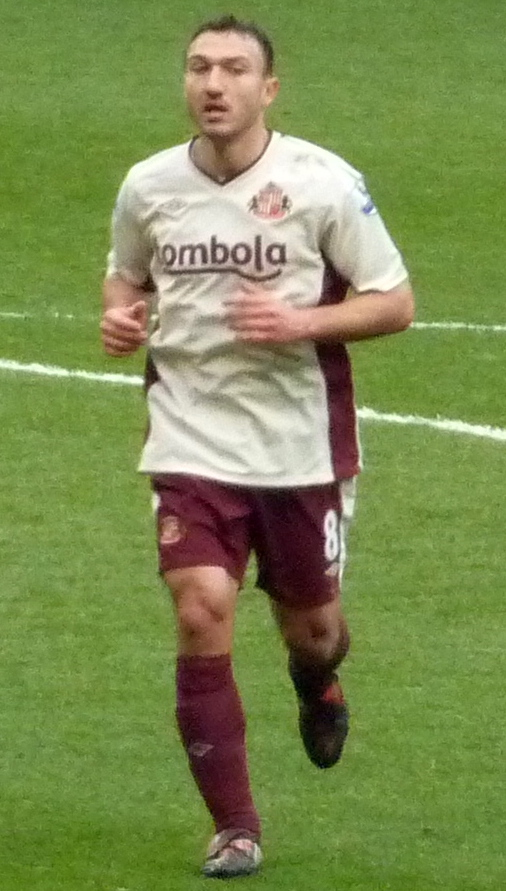 Steed Malbranque from Arsenal vs Sunderland